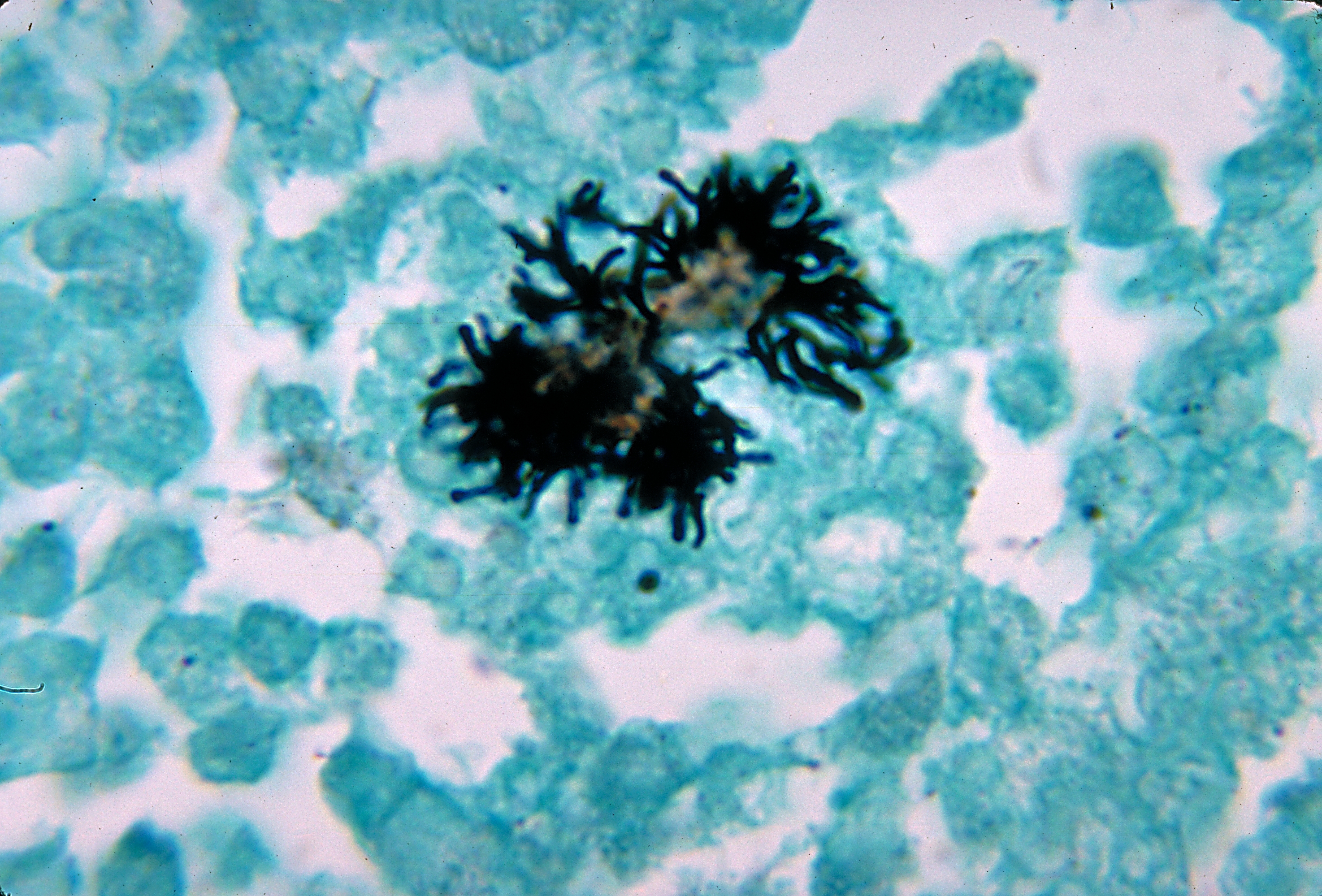 Histopathological changes due to Actinomyces naeslundii bacteria. Silver stain, brain abcess. Obtained from the CDC Public Health Image Library. Image credit: CDC/Dr. Lucille Georg (PHIL #3023), 1971.